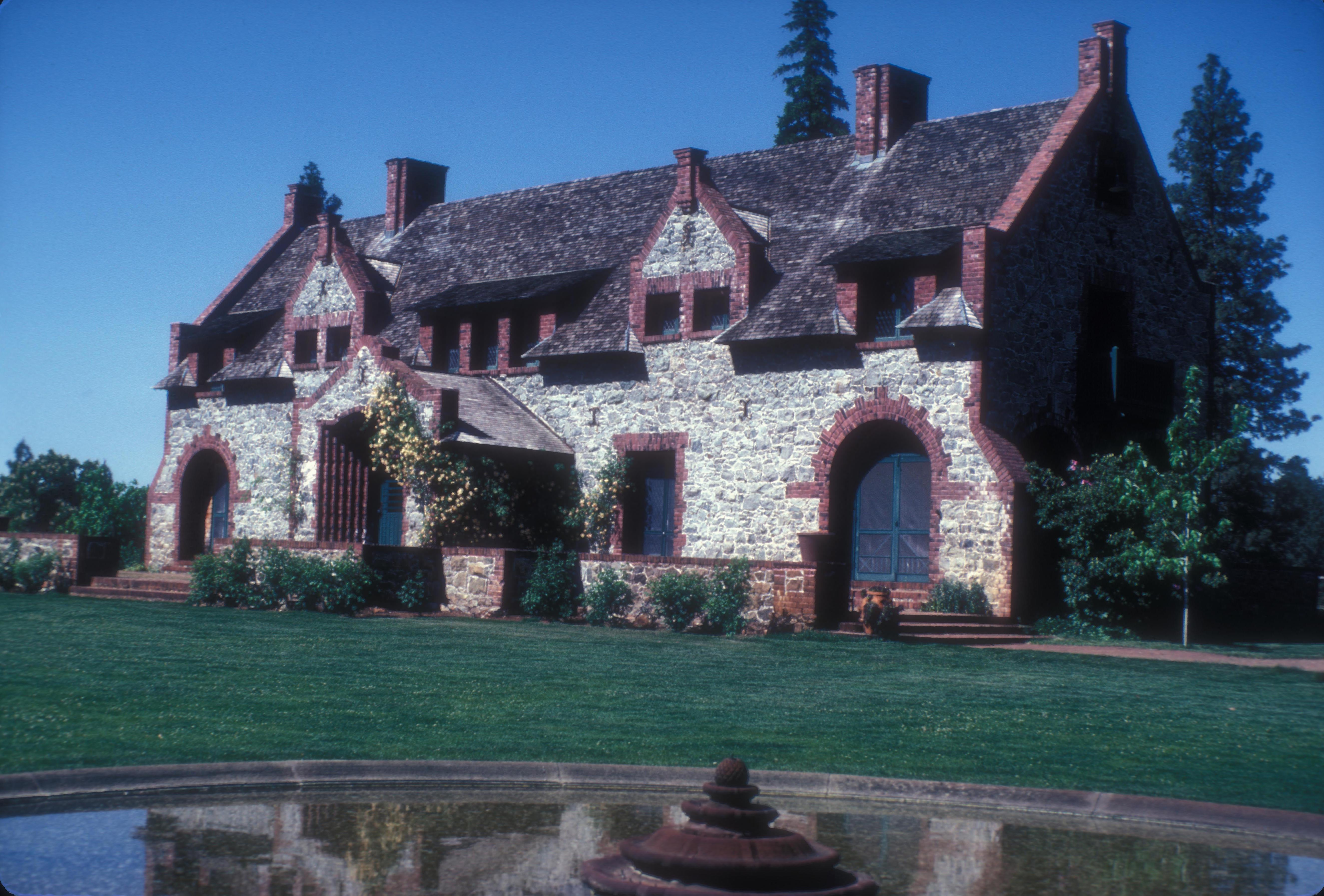 EMPIRE COTTAGE — stone mansion at the Empire Mine, Empire Mine State Historic Park, in Grass Valley, California. BUILT in the ENGLISH COUNTRY HOME style, and called a COTTAGE to DISTINGUISH it from MR. BOURN'S other SUMMER HOMES and MANSIONS (such as 'Filoli' in Woodside) in the SAN FRANCISCO Bay Area. May show CORNISH design influences, since virtually most the miners at the Empire Mine were from the tin and copper mines of Cornwall, England with experience and expertise in hard rock mining.